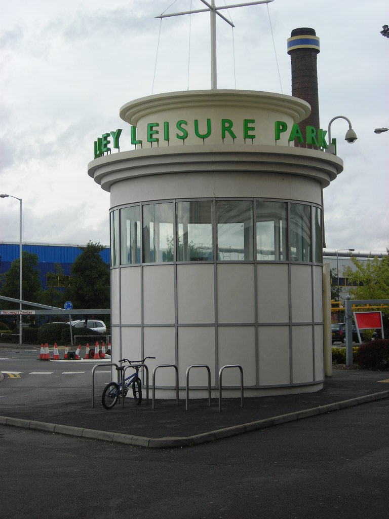 Valley Leisure Park in Croydon's Purley Way.